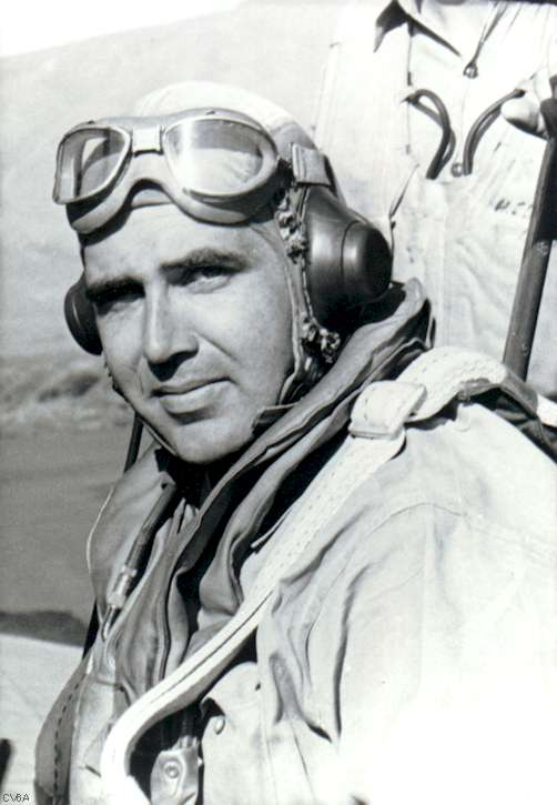 Lieutenant Commander Edward "Butch" O'Hare (Air Group Six Commander/USS Enterprise CV-6) in the cockpit of a Grumman F6F-3 "Hellcat" in 1943.